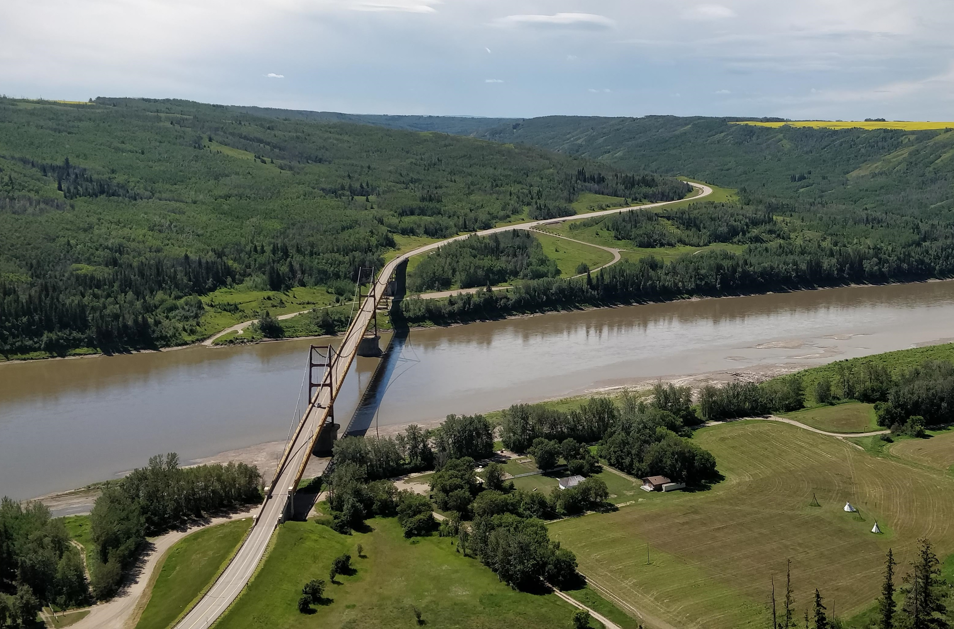 Dunvegan Bridge and historic site in Alberta, Canada. Peace River seen below.